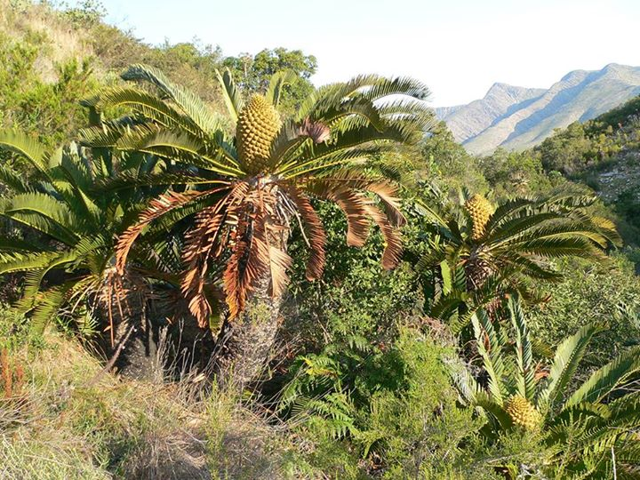 Encephalartos longifolius - Zuurberg, Cape Province, South Africa